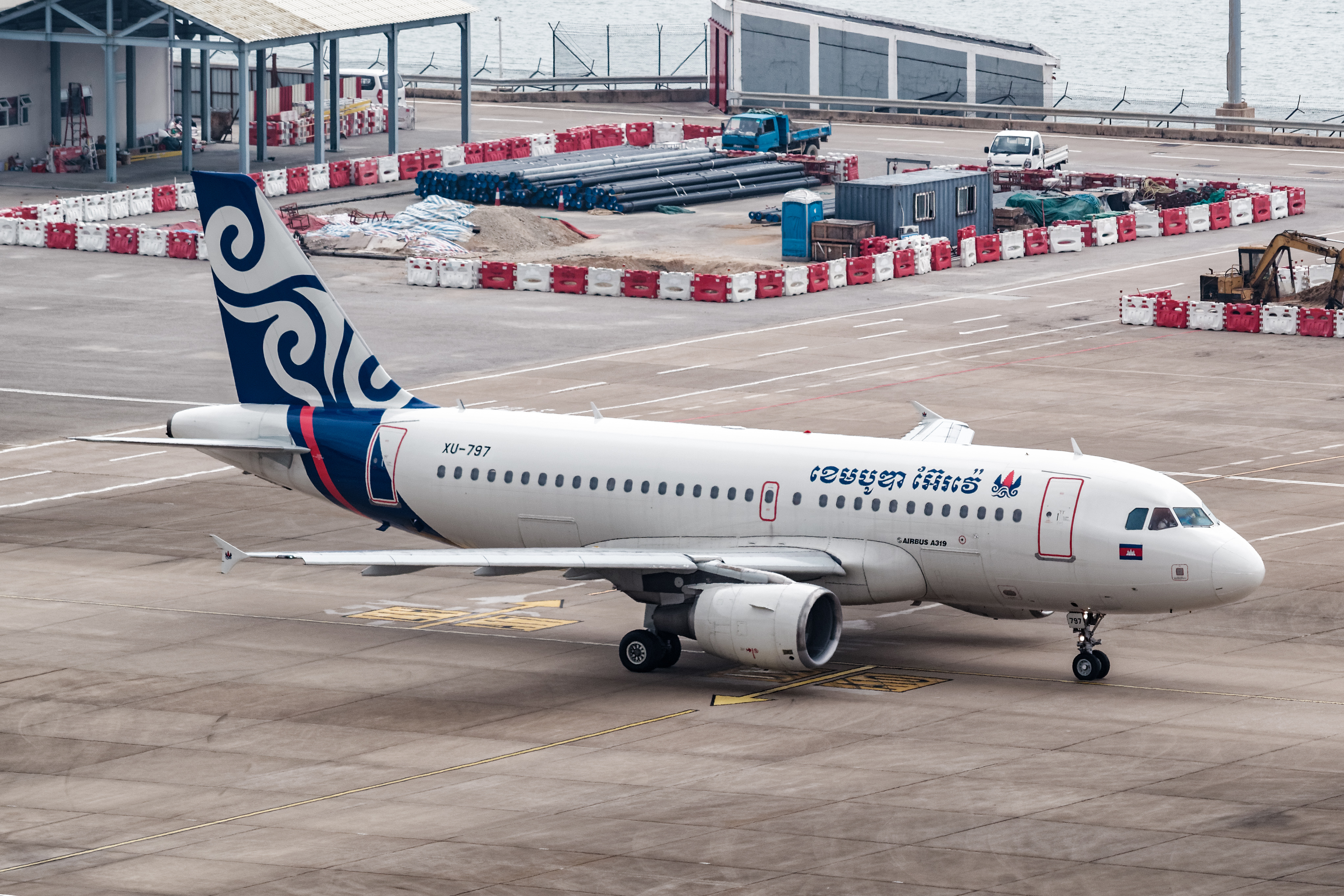 Cambodia Airways A319-100 XU-797